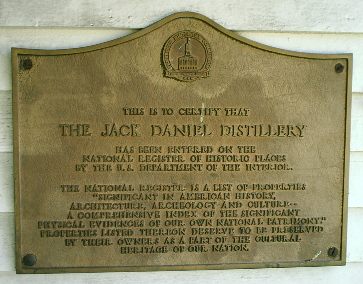 Plaque on Jack's office building